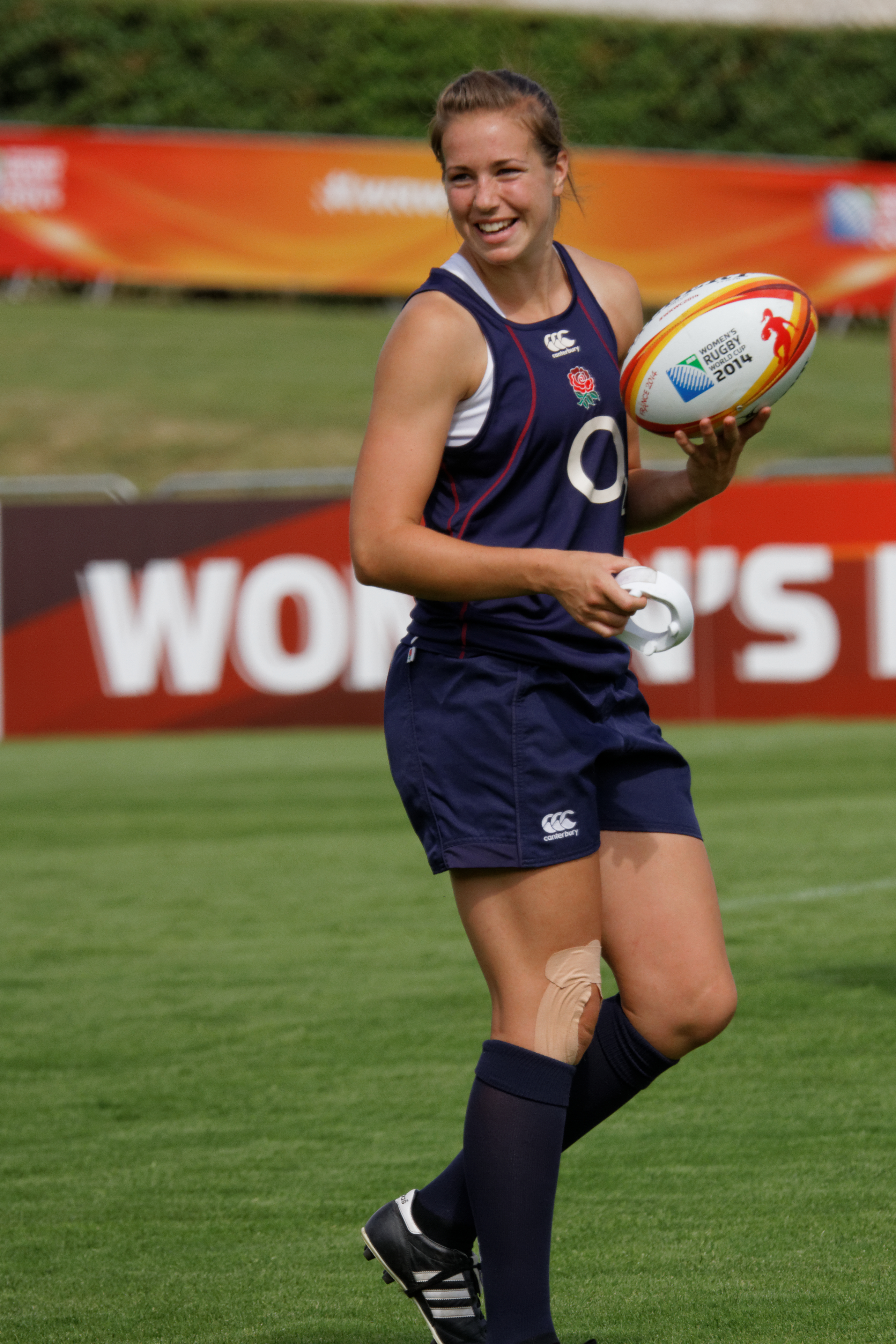 2014 Women's Rugby World Cup